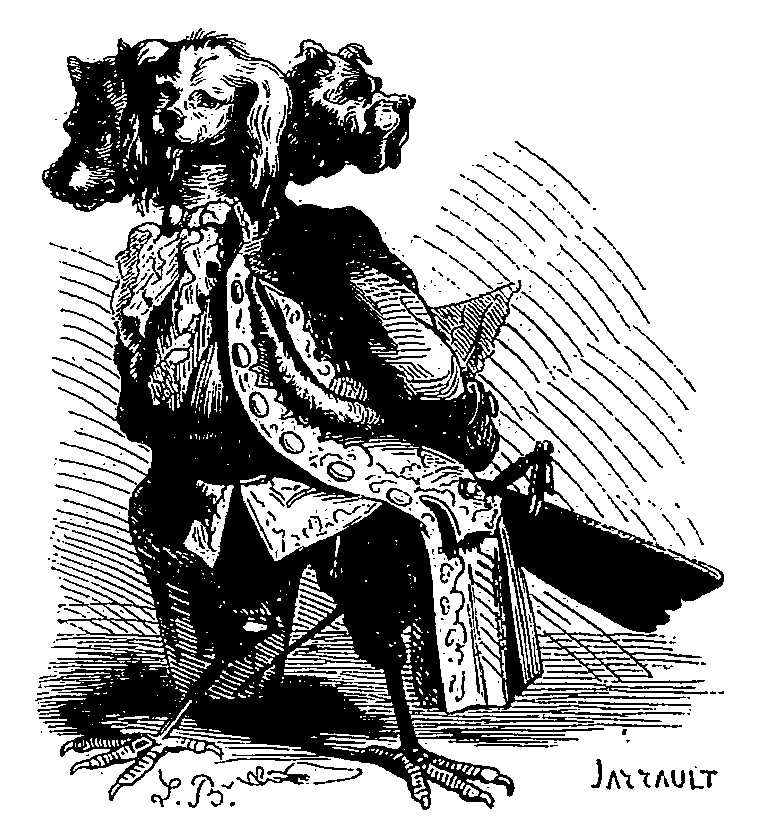 Cerberus, an illustration from the "Dictionnaire Infernal" by Jacques Collin de Plancy.